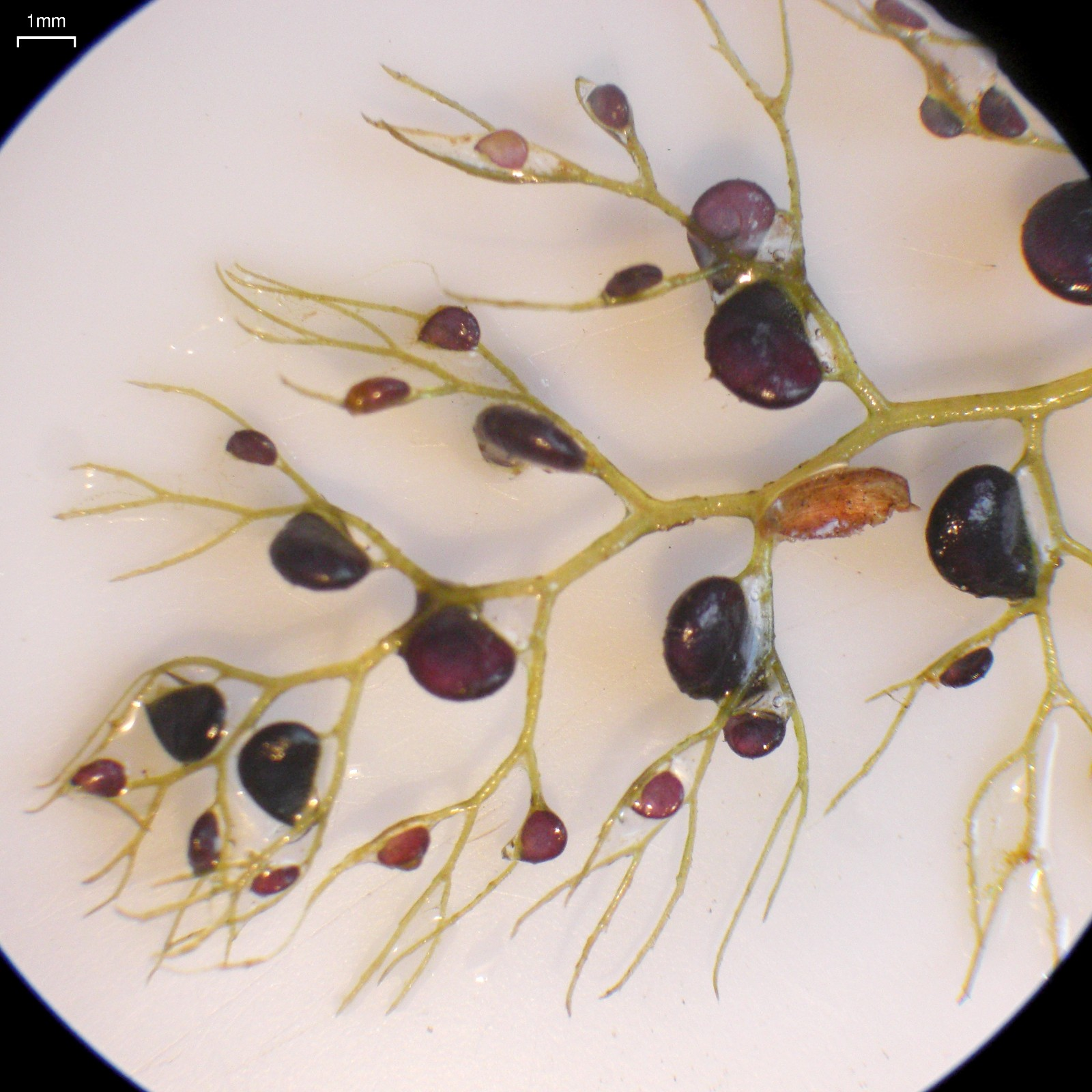 Common Bladderwort(Utricularia vulgaris)